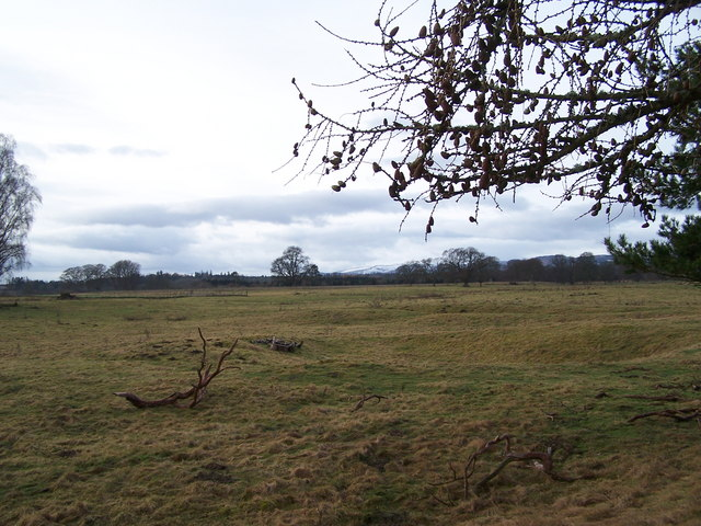 Roman Fortress Inchtuthil From an OS map perspective the square kilometre is dominated by the famous Roman legion fortress of Inchtuthil. (Suggest Googling 'Inchtuthil'). However, in reality, the dominant landscape character is rather uninteresting farm grazing land.